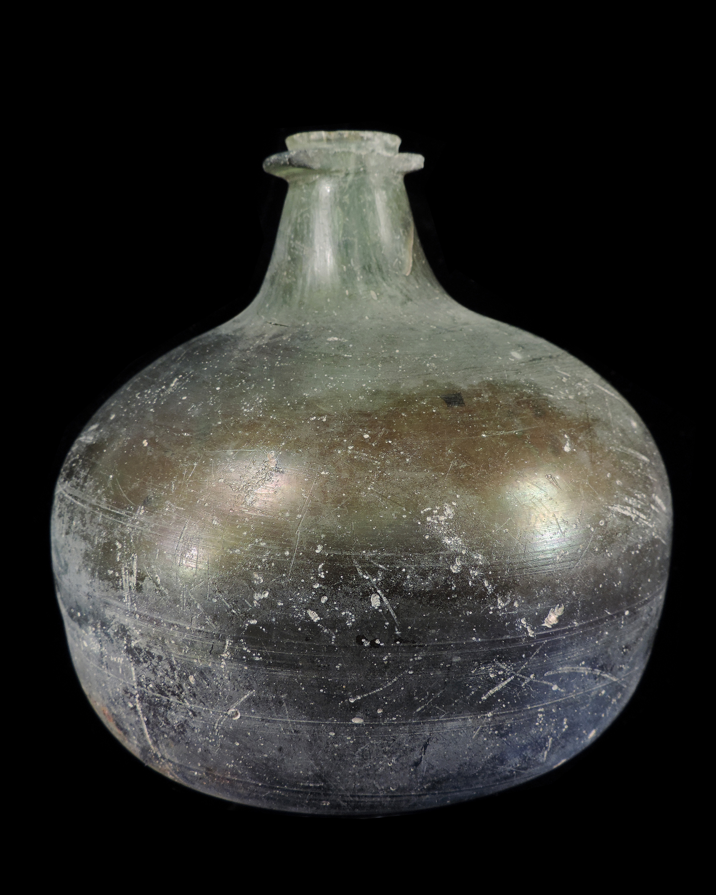 A Post Medieval glass wine bottle dating from AD 1690-1700. The bottle free-blown and is 'onion' shaped. The base of the bottle has a kick-up to trap the sediment in the wine. The bulbous body of the bottle gradually expands to the curving shoulder. The neck gradually tapers to the rim which is partly broken, with only small part of the ribbed collar (string rim) remaining which is D-shaped in cross-section. This is an English style lip with applied string rim. Bottles of this date were sealed with a loose fitting wedge-shaped cork, tied down to the string rim, a ridged shaped band on the neck just below the lip (Hedges 1975:8). The rim has a diameter of 24.5mm. The neck is 25.5mm in height. The glass is a dark green and brown with frequent irregular air bubbles. Dimensions: diameter: 129mm; height: 130mm; weight: 859g. Similar bottles on the database are KENT-D30418 and BERK-D3B311. These bottles, with the shorter neck and higher kicked-base, date from between c.1680 and about 1700 and were used for storing and transporting wine. After 1700, bottles slowly became taller and thinner, resembling the more modern wine bottle by the middle of the 18th century. Reference: Hedges A.A.C. 1975. Bottles and Bottle Collecting, Shire Publications.